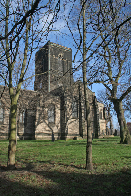 St Stephens Church, Sneinton An exceptional example of restrained Victorian gothic.